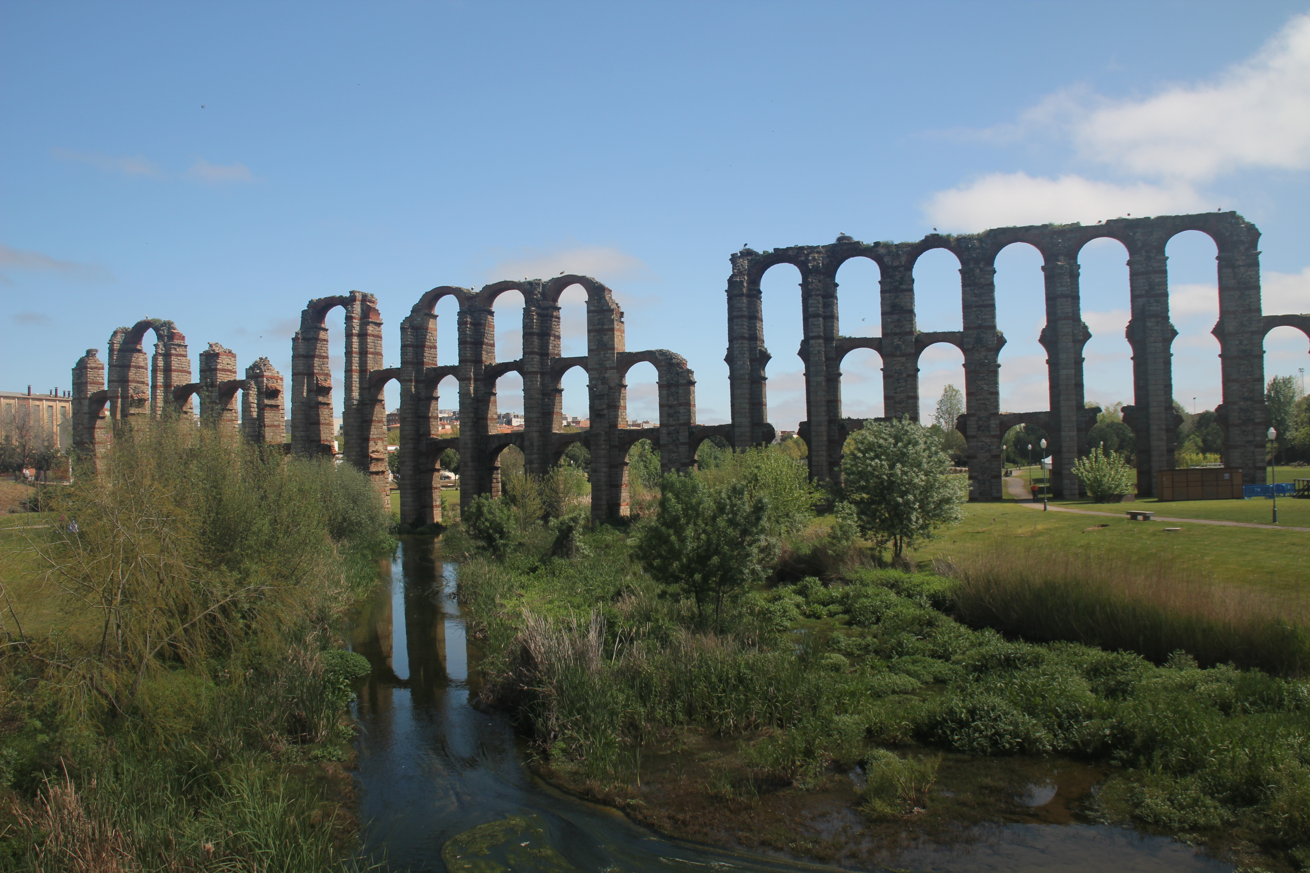 The Aqueduct of the Miracles in Mérida